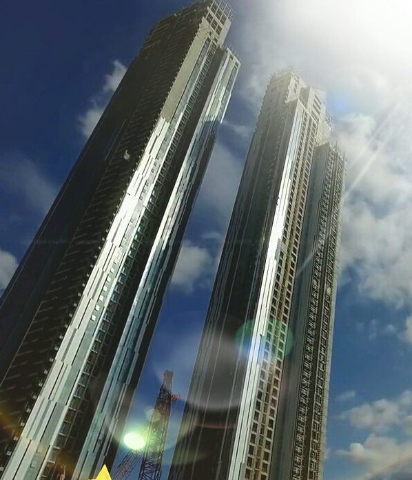 The Astaka twin tower.